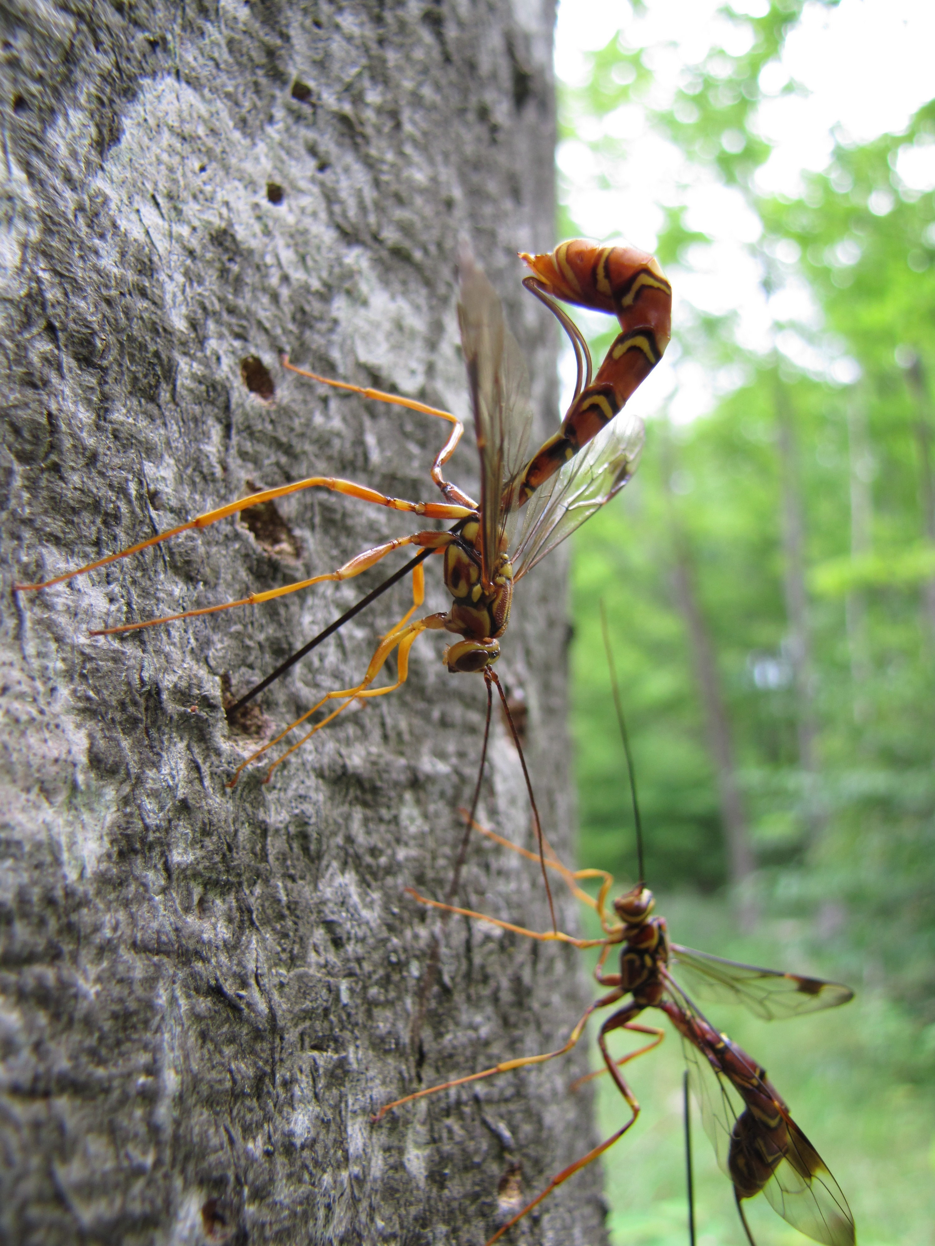 These wasps (Megarhyssa macrurus lunator) are commonly seen at our northern hardwoods cross country ski trail area on American beech trees suffering from beech bark disease. These wasps use their long ovipositor (egg laying structure) to lay eggs inside the holes insects make into the dying beech trees. It should be noted that these wasps do not sting and are really cool to see up close. Photo: Mike McCarthy